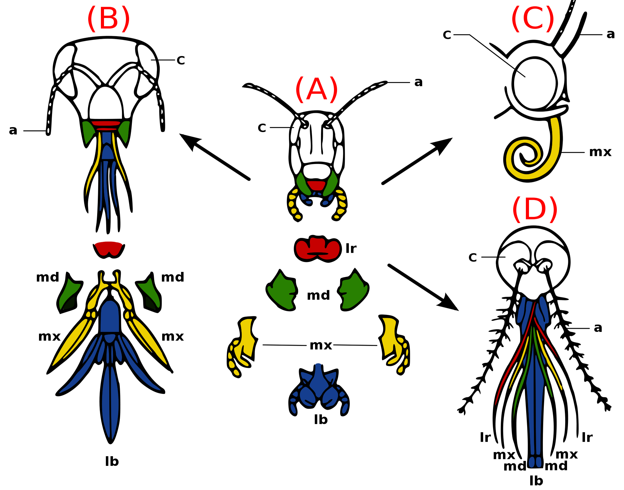 The development of insect mouthparts from the primitive chewing mouthparts of a grasshopper in the centre (A), to the lapping type (B) and the siphoning type (C). Legend: a, antennae; c, compound eye; lb, labium; lr, labrum; md, mandibles; mx, maxillae.